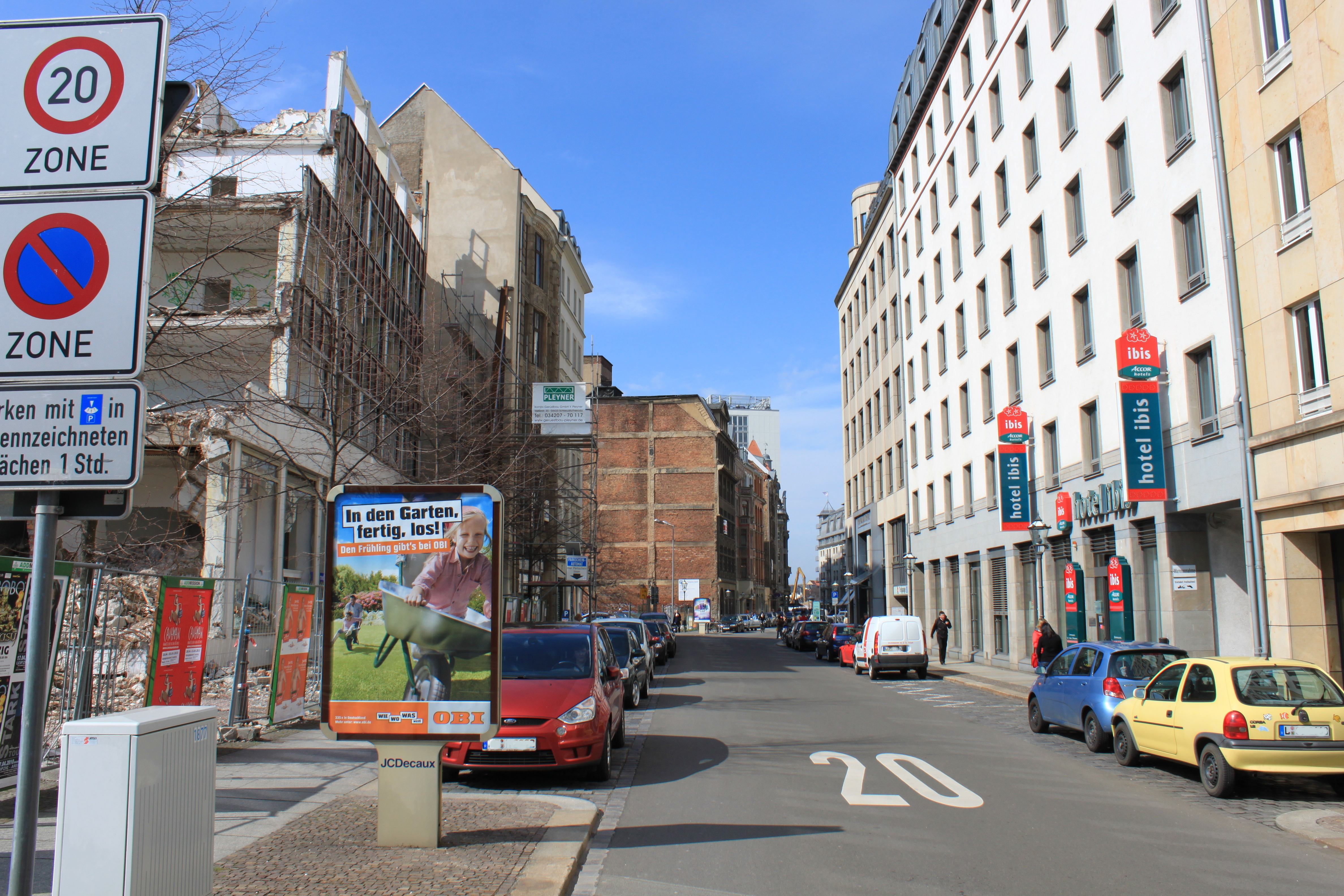 the Brühl from East